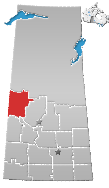 Saskatchewan census area No. 17